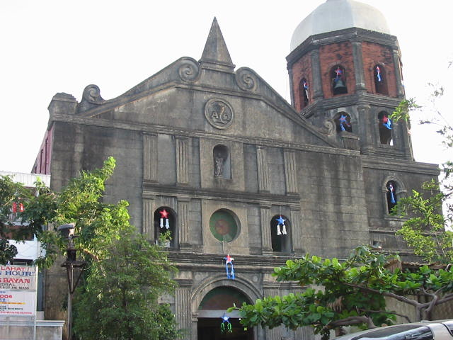 This photograph was shot by using a digital camera. Owned by Ministry of Information and Communication, Cathedral Parish of St. Andrew, December, 2004